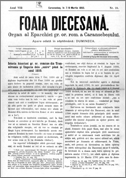 Front page of Foaia Diecezană.